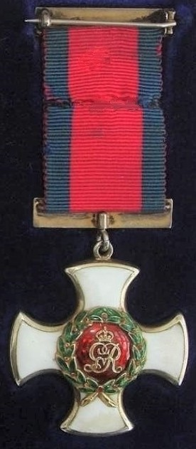 British award for officers in the armed forces